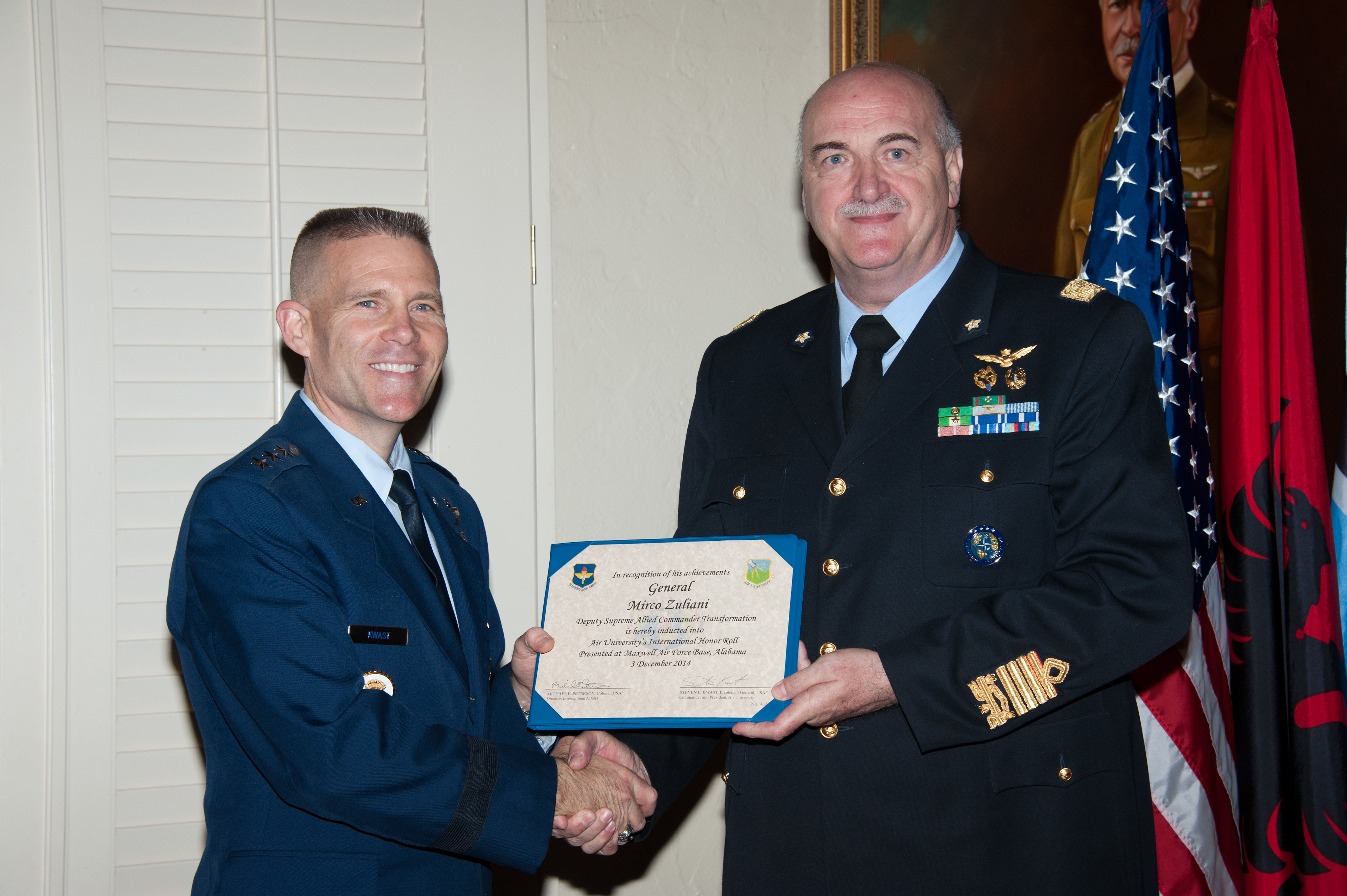 Lt. Gen. Steven Kwast, commander and president, Air University, inducts Italian Gen. Mirco Zuliani, Deputy Supreme Allied Commander Transformation, into the International Honor Roll, Dec. 3, 2014. IHR recognizes international graduates who attain leadership positions in their country as chief of their service or higher. Zuliani attended AWC. (U.S. Air Force photo by Melanie Rodgers Cox/Released)